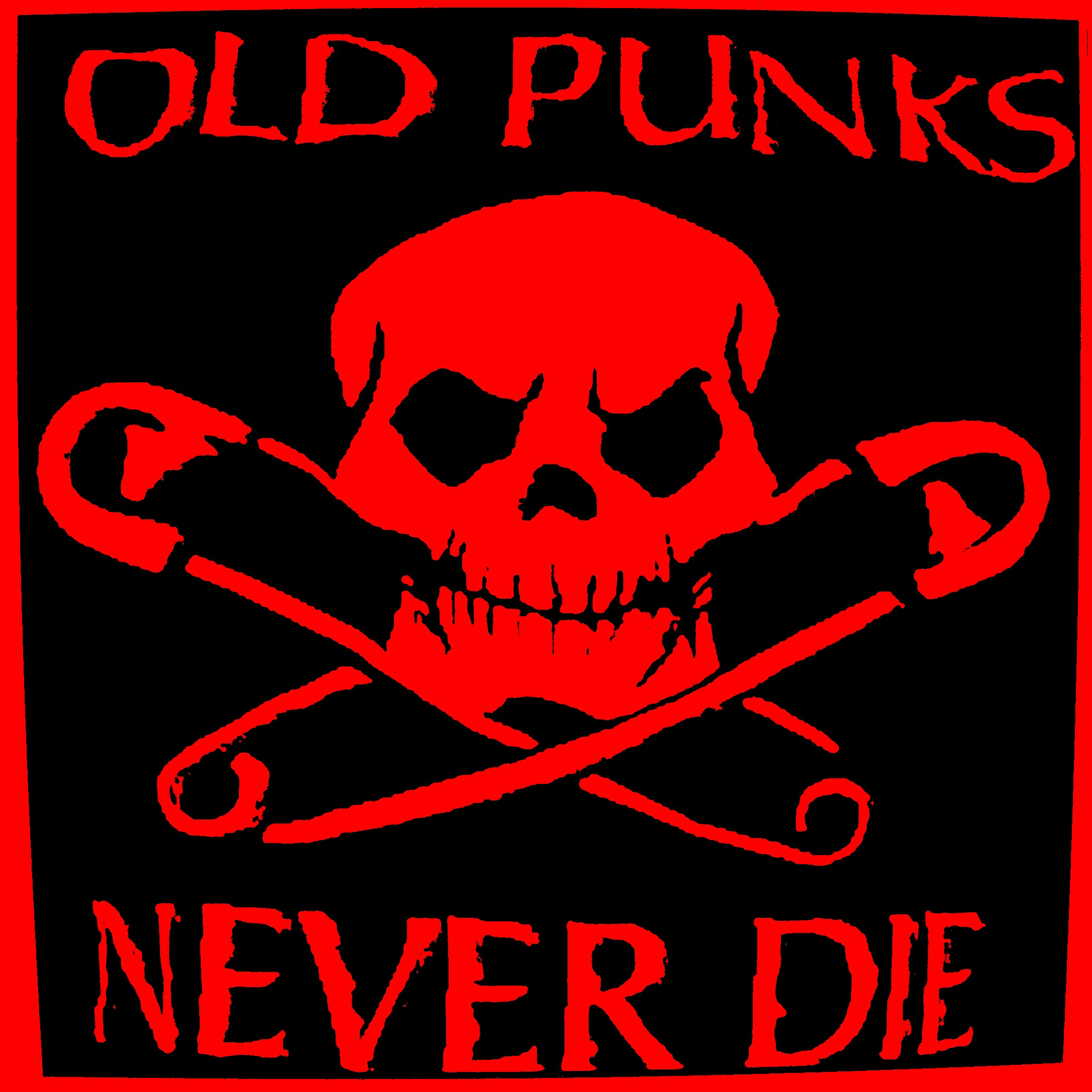 Old punks never die.